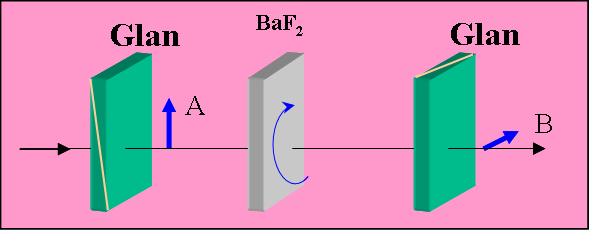 scheme of XPW